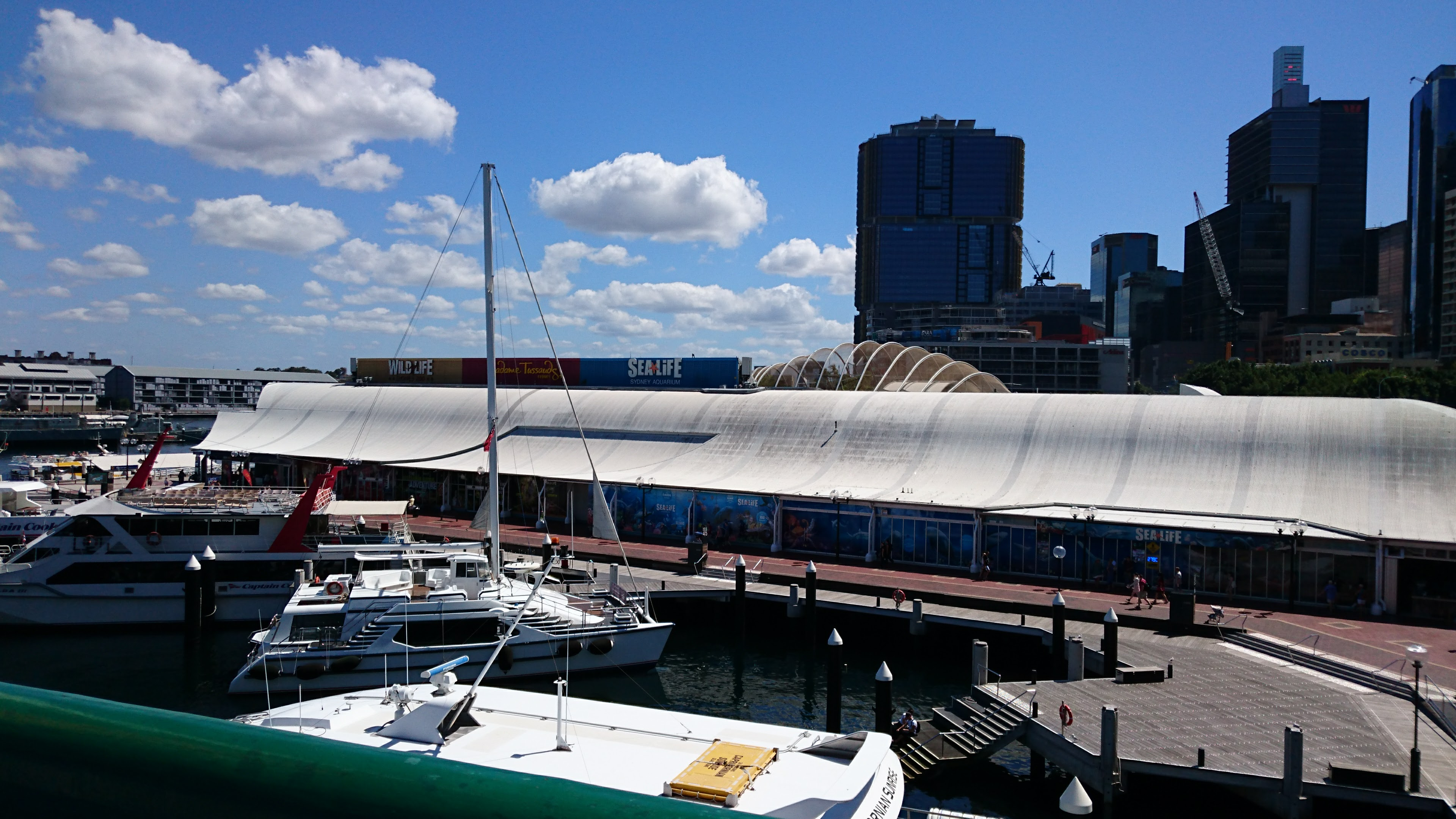 Sydney aquarium sea life-Australia